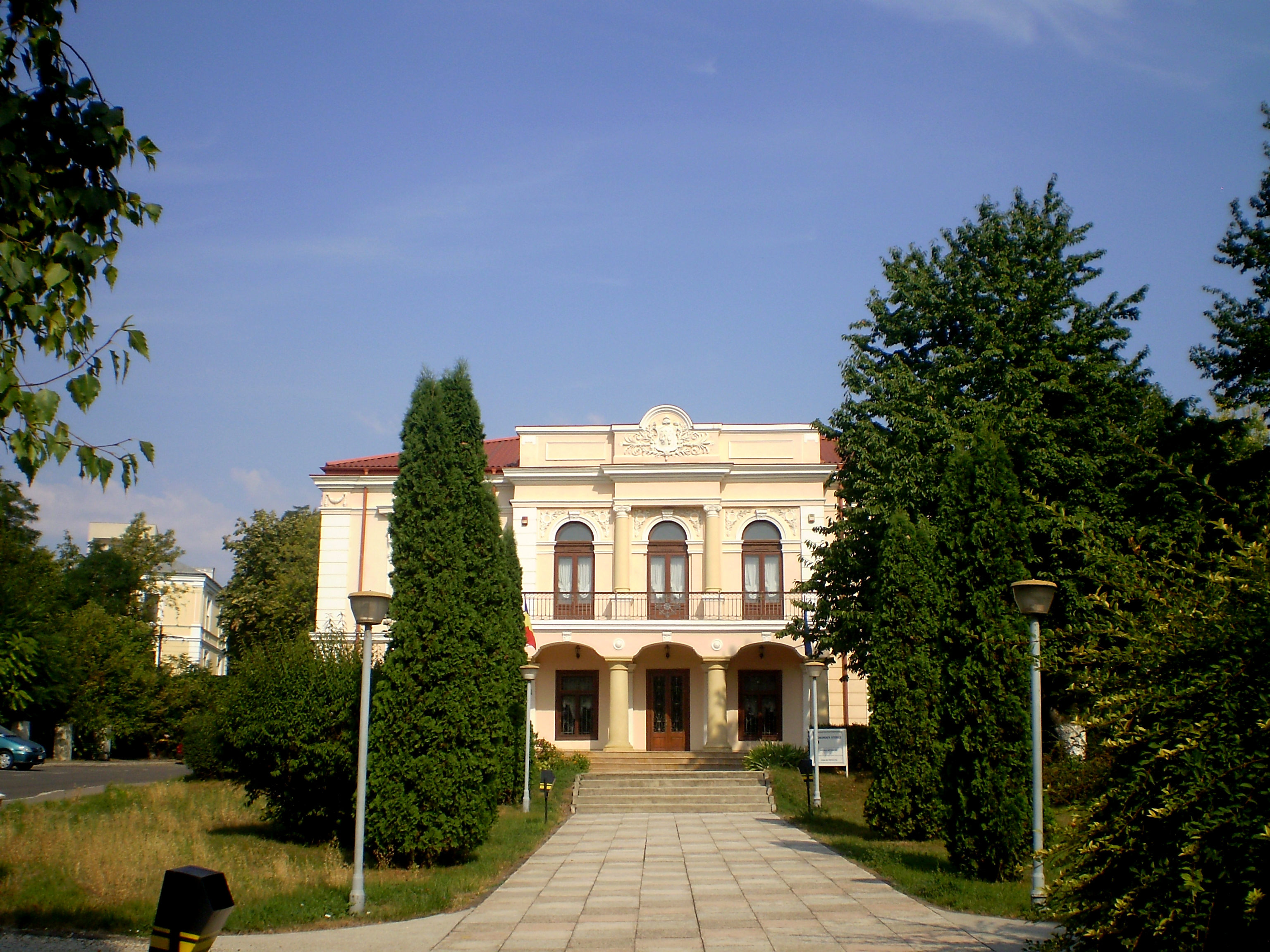 Iaşi , Romanian Literature Museum (House Pogor) , Iaşi , Romania